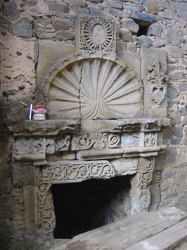 dankaz smoke chimney detail